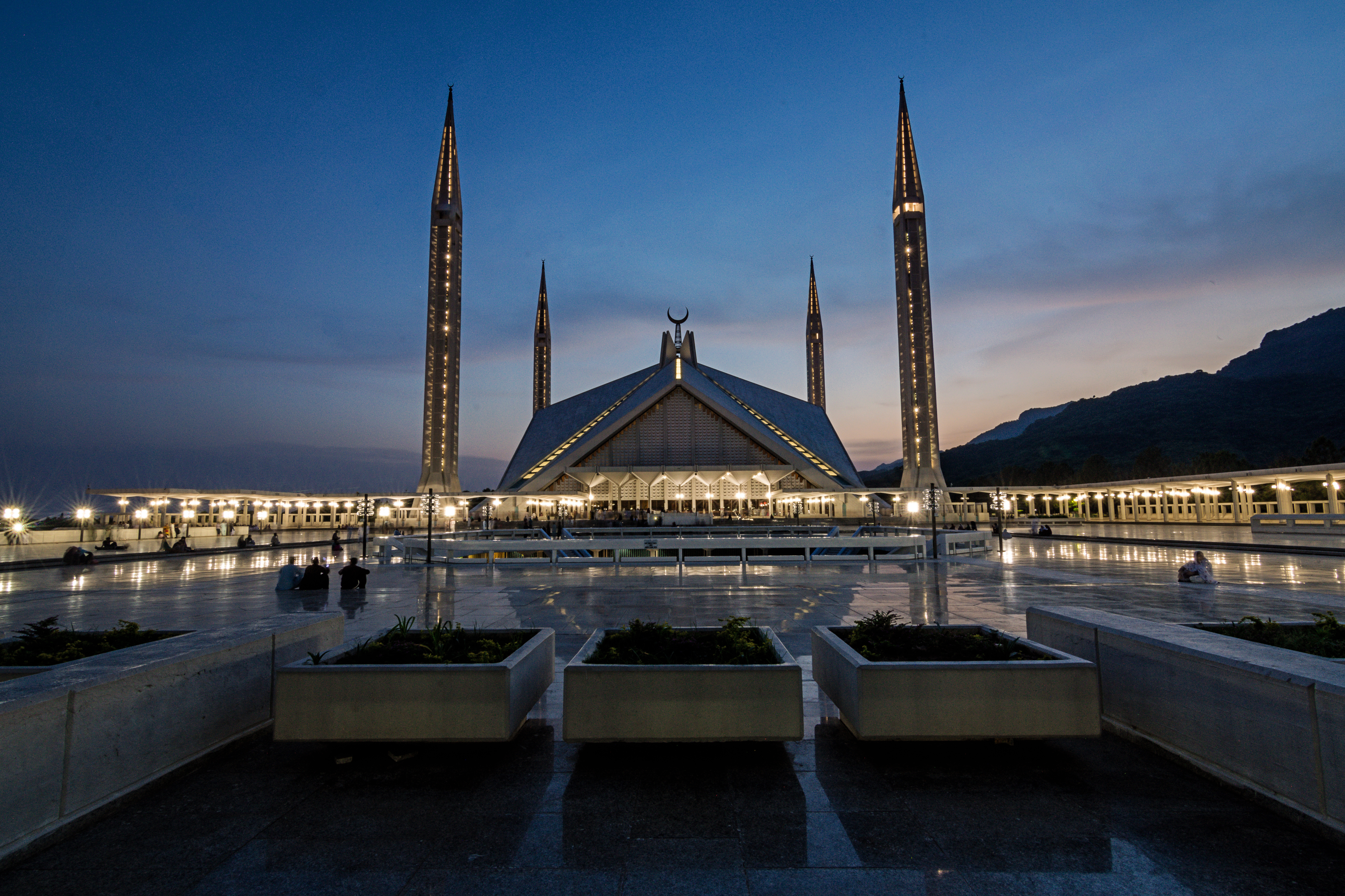 Faisal Mosque This is a photo of a monument in Pakistan identified as the ICT-5